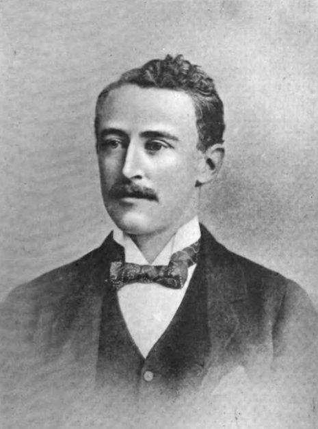 Colonel E.W. Baird, Thoroughbred owner and breeder.